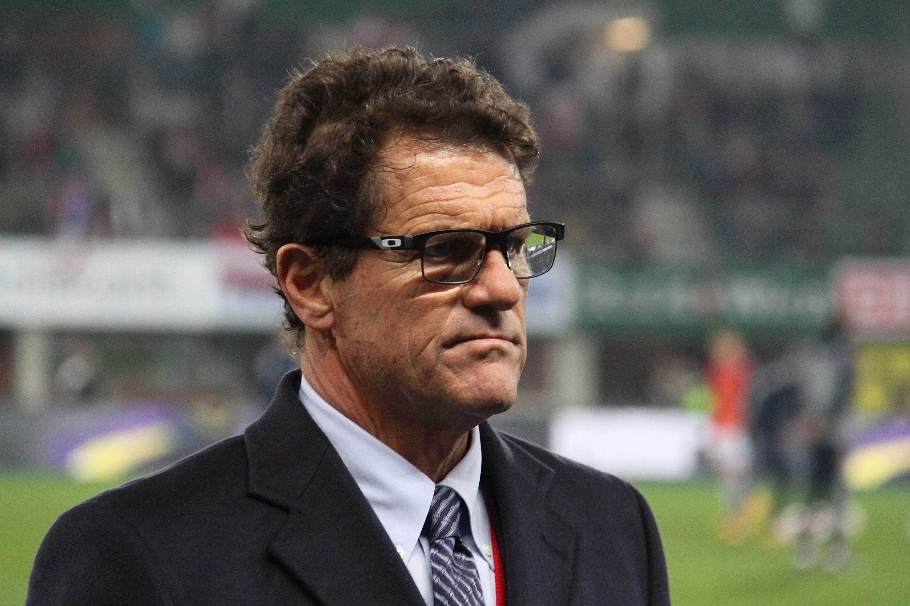 UEFA Euro 2016 qualifying: Austria vs. Russia (1:0 / 0:0) at 2014-11-15 in the Ernst-Happel-Stadion in Vienna. – The photo shows the manager of the Russian team Fabio Capello.